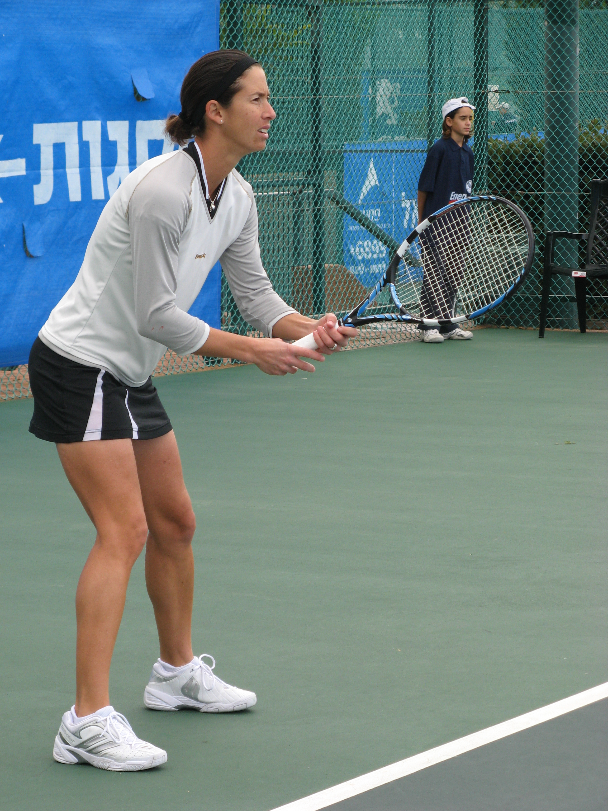 Israeli tennis player Tzipora Obziler at the Israel tennis championship 2008 semi final against Chen Astrogo